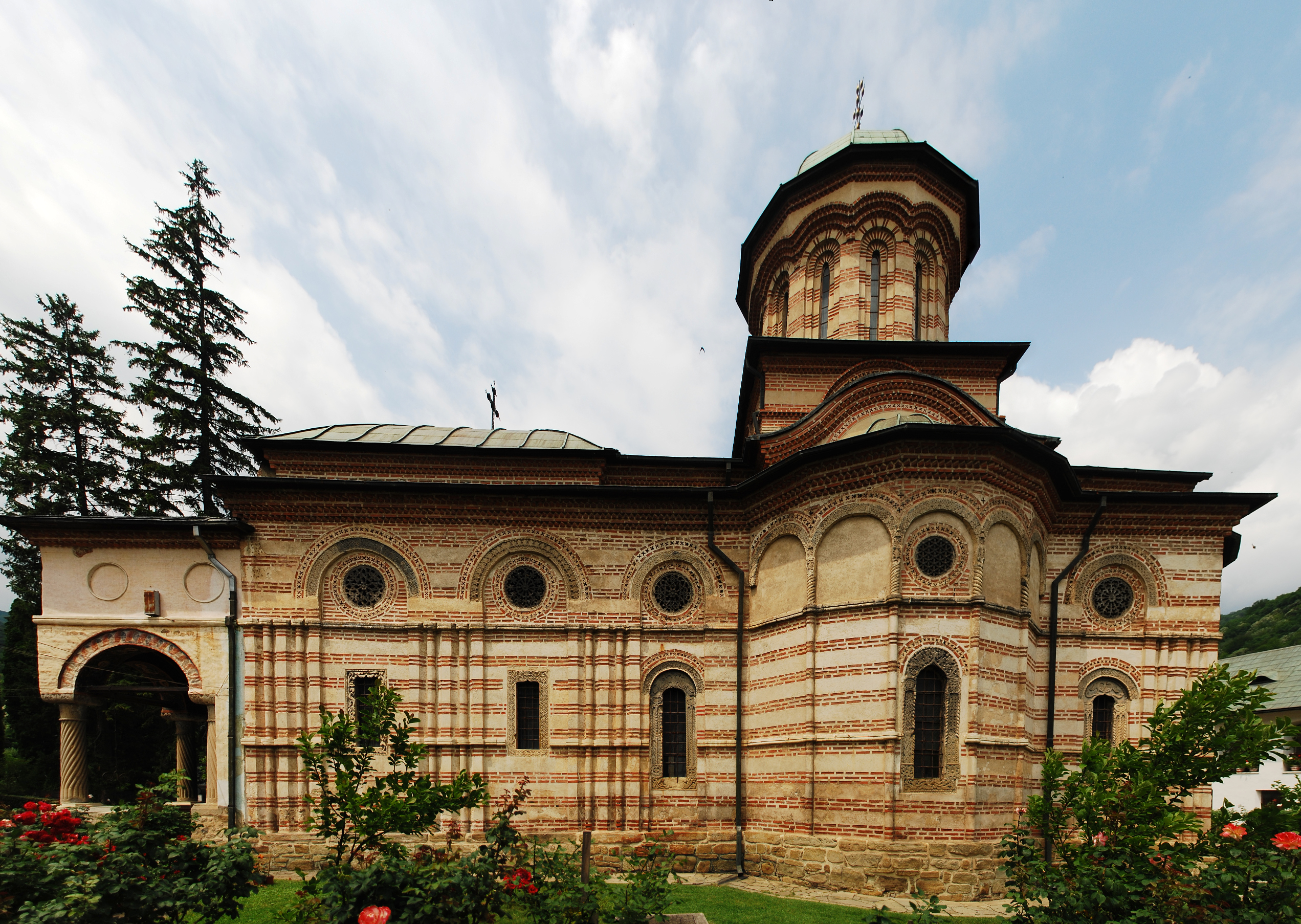 Holy Trinity church of the Cozia Monastery, Căciulata, Călimăneşti town, Vâlcea County, Romana 01